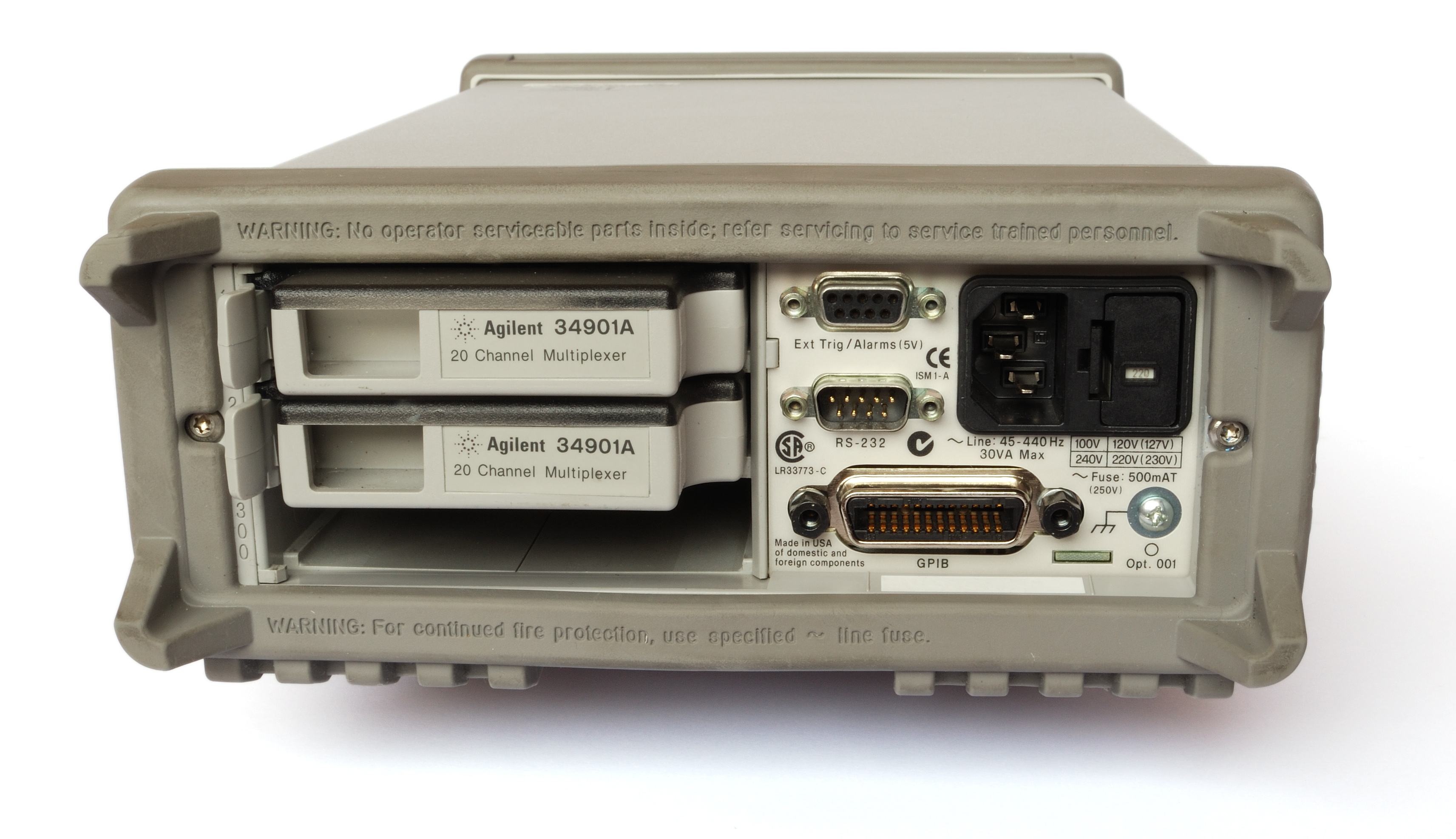 Rear view of the Agilent 34970A Data Acquisition and Control Unit with two plug-in Units 34901A for thermocouple measurements. The third slot is empty. See also front view and plug-in unit.